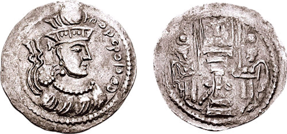 Kidarites Uncertain King Late 4th-early 5th century CE. AR Drachm (3.36 gm, 2h). Imitating Sasanian king Shahpur III. Crowned bust right; degraded legend before / Fire altar with attendants and ribbon; bust right in flames.